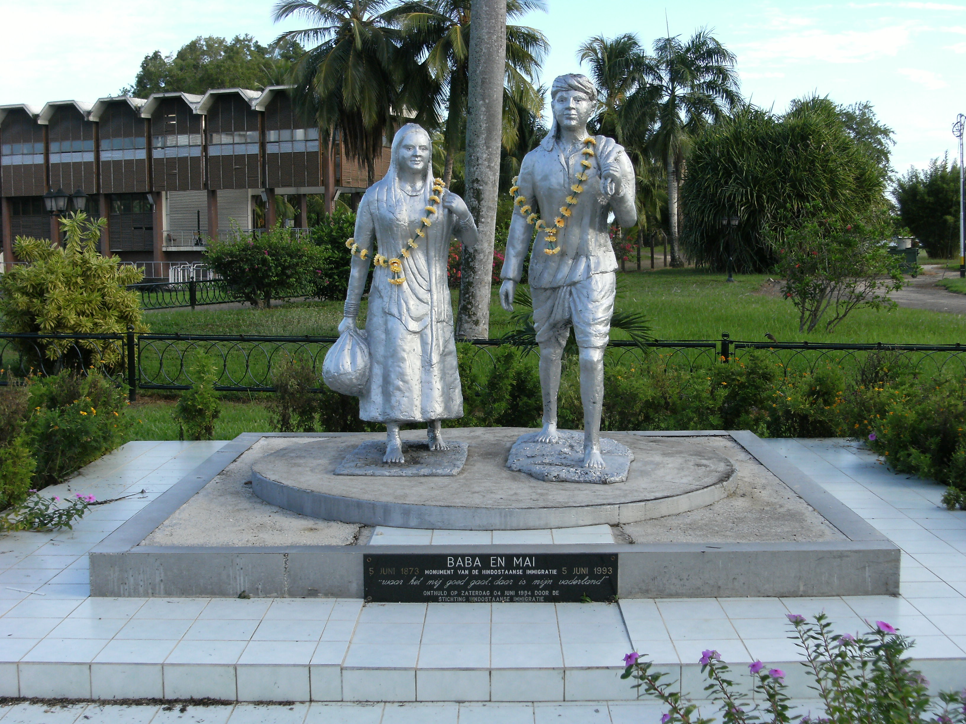 Baba and Mai Memorial for Hindustani immigrants in Suriname.